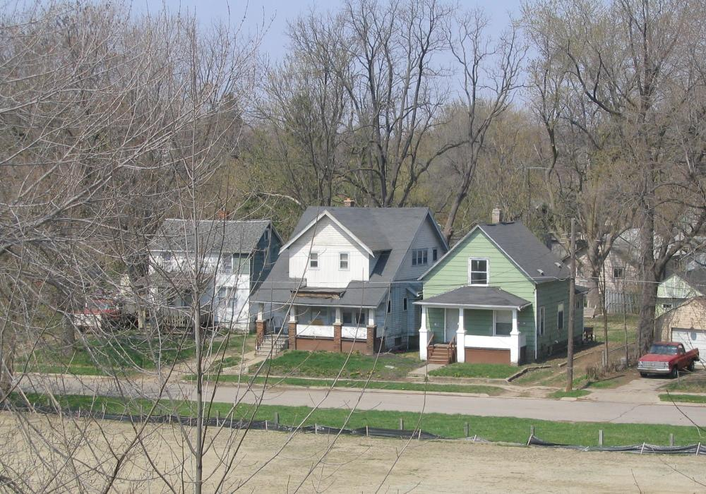 Photo taken by Connor Coyne, April 2005. This image released to public domain. Hall's Flats on the West Side is one of Flint's many neighborhoods.